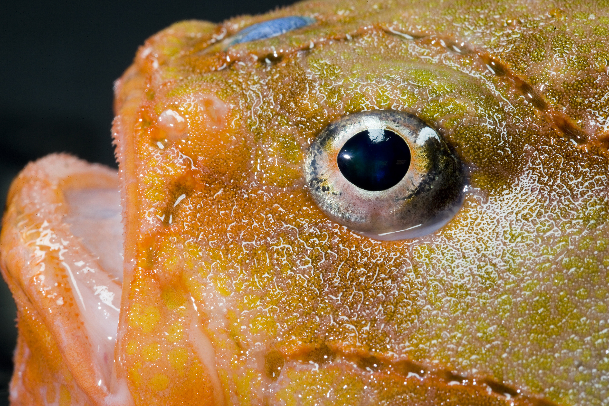 Chaunax stigmaeus Offshore North Carolina